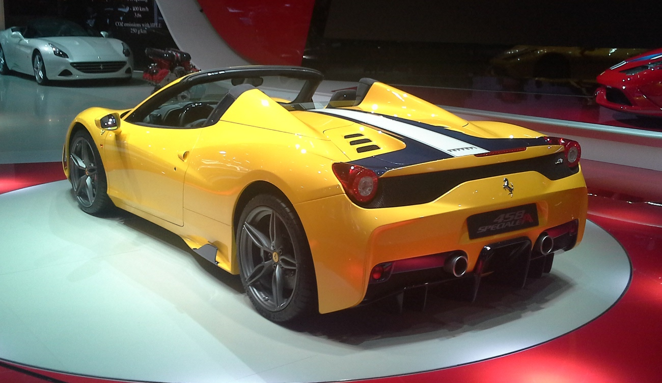 Ferrari 458 Speciale A photographed at the Mondial de l'Automobile 2014 in Paris, France.